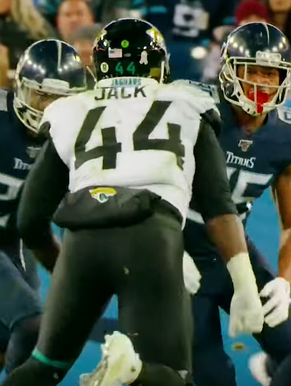 Myles Jack 2019. Image from video Titans Mic'd Up vs. Jaguars (Week 12) | Sounds of the Game, ~ 03:25